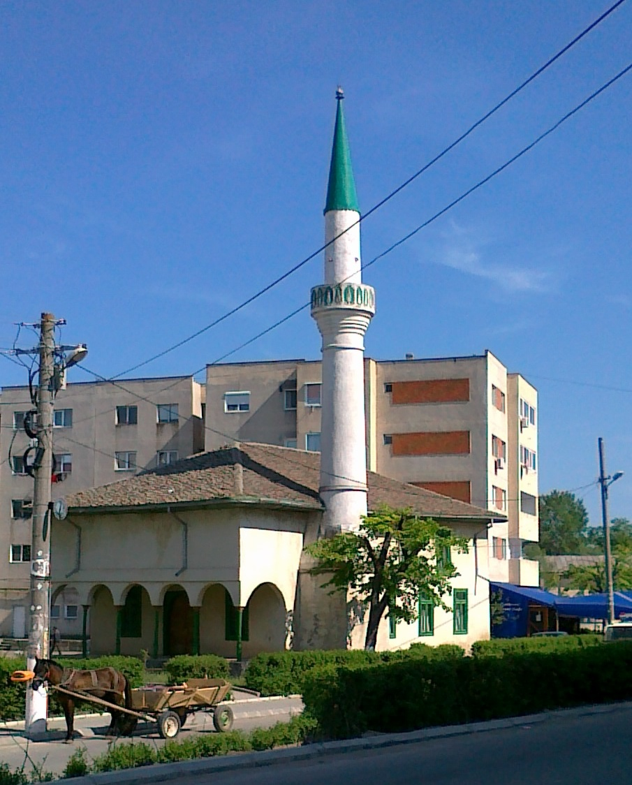 Mosque in Isaccea, Tulcea county, Romania. Ottoman architecture in Romania.